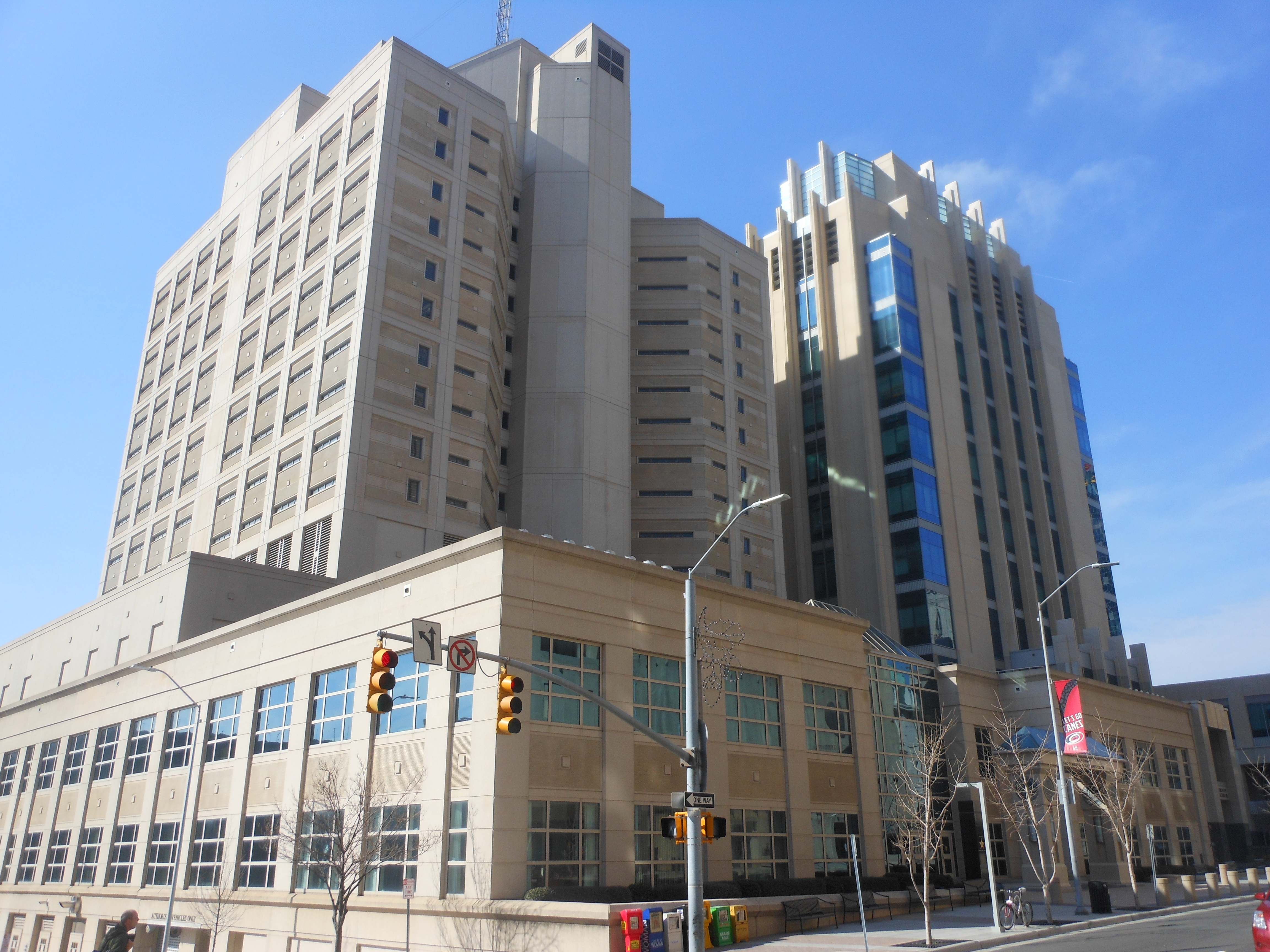 Wake County Justice Center in Raleigh, NC